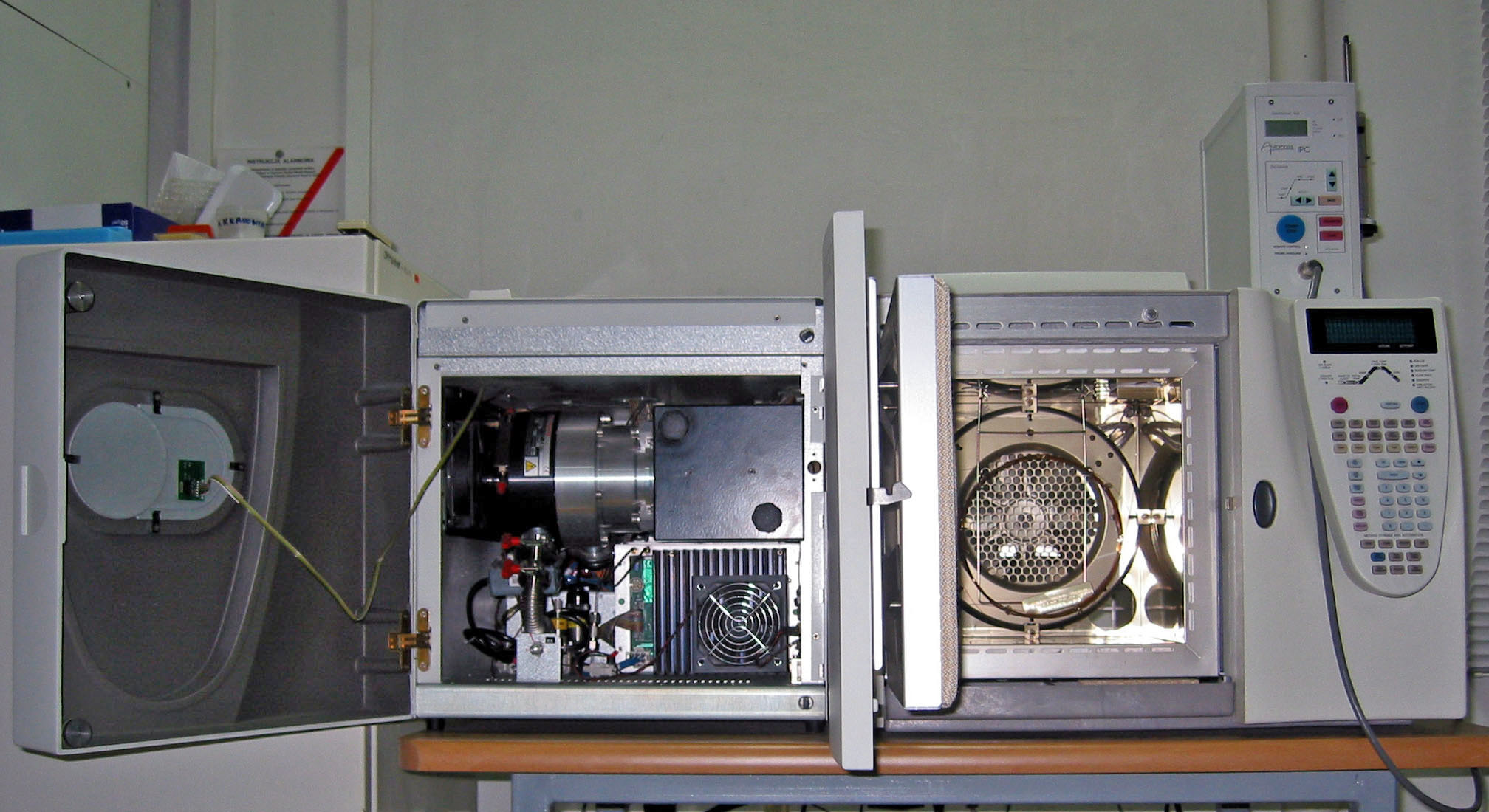 A gas chromatograph–mass spectrometer (GCMS) with open door - (ThermoQuest Trace 200). The apparatus is the property of CBMiM PAN